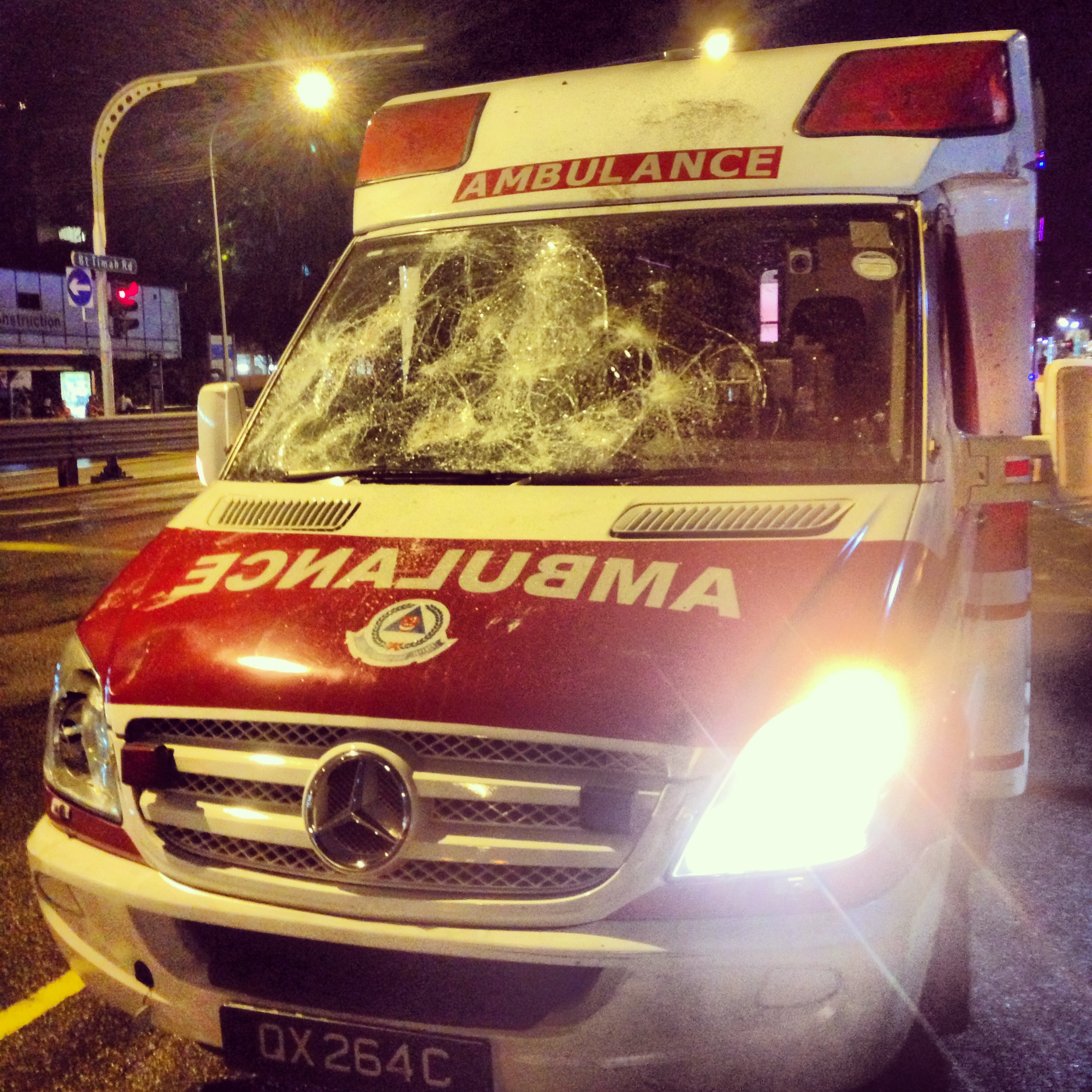 A Mercedes-Benz ambulance near the entrance to Race Course Road that was damaged during the 2013 Little India riots in Singapore.